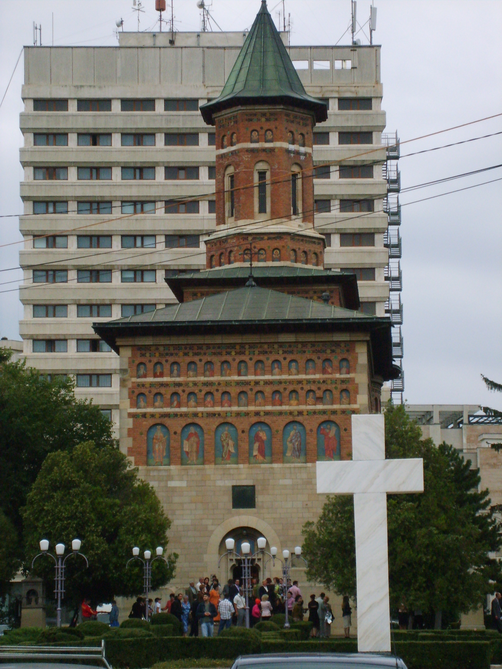 Iaşi is a city with a lot of contrasts. In the picture you can see a very nice church and, just beyond it, there is an ugly gray building.